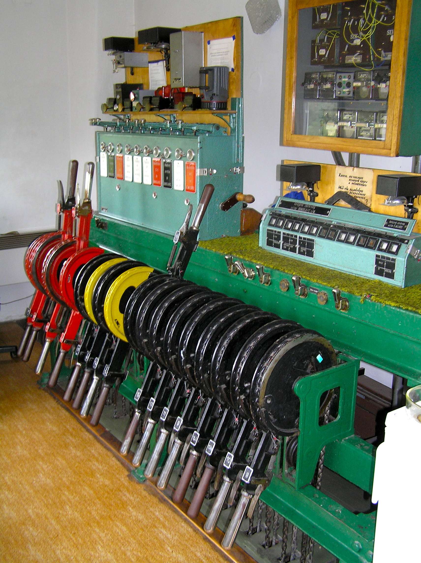 Mechanic interlocking machine (lever frame) in the station Opočno pod Orlickými horami (East Bohemia)